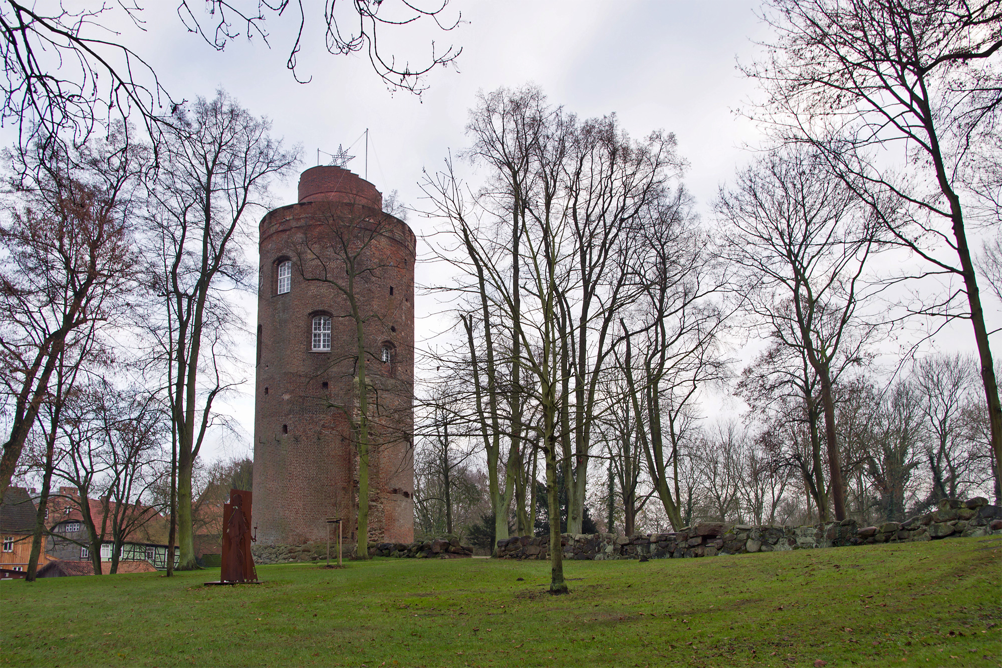 Tower "Amtsturm", only remains of a former castle in the small town Lüchow (district Lüchow-Dannenberg, northern Germany).